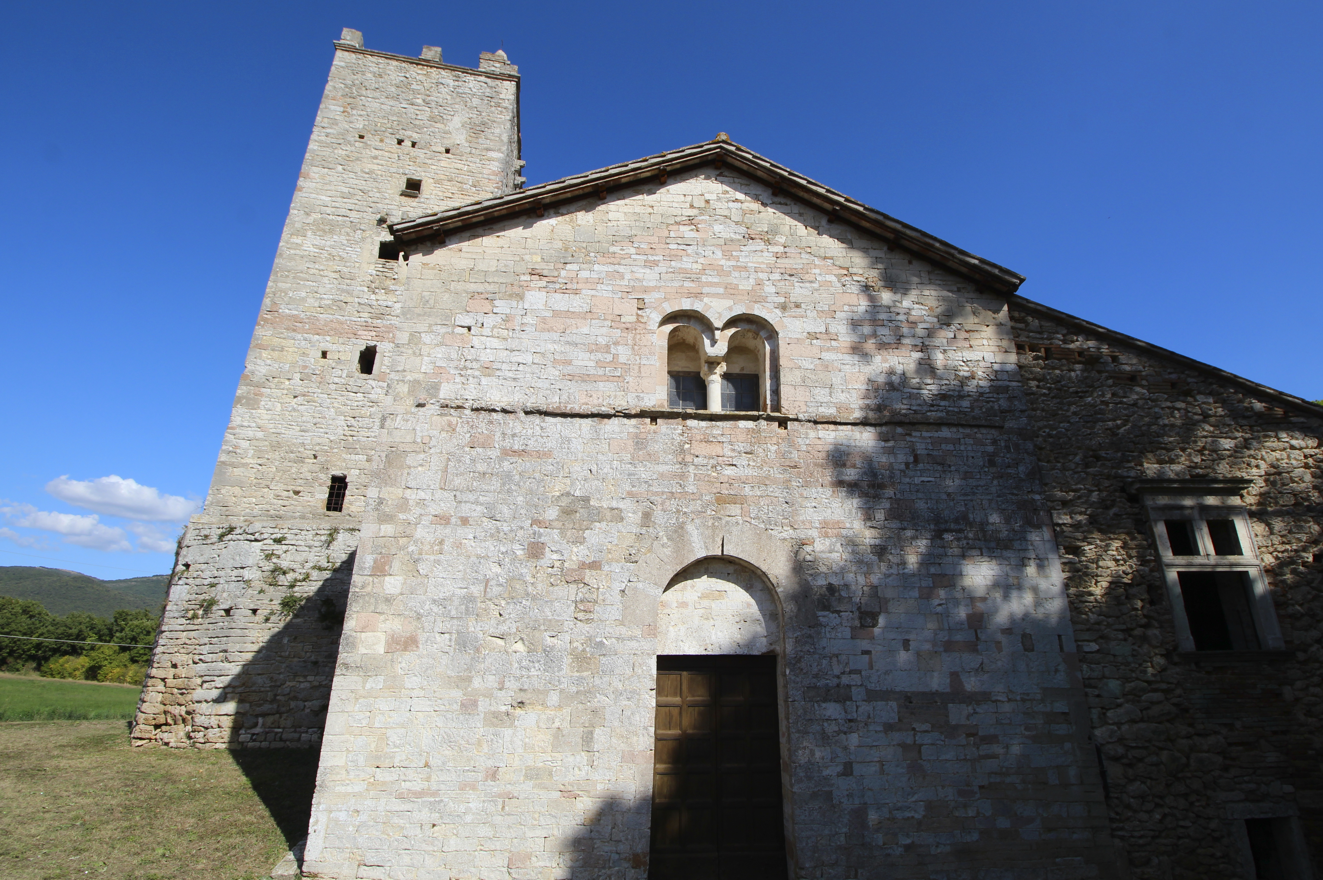 church and abbey Santi Fidenzio e Terenzio, Massa Martana, Province of Perugia, Umbria, Italy